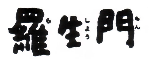 Rashomon film logo.